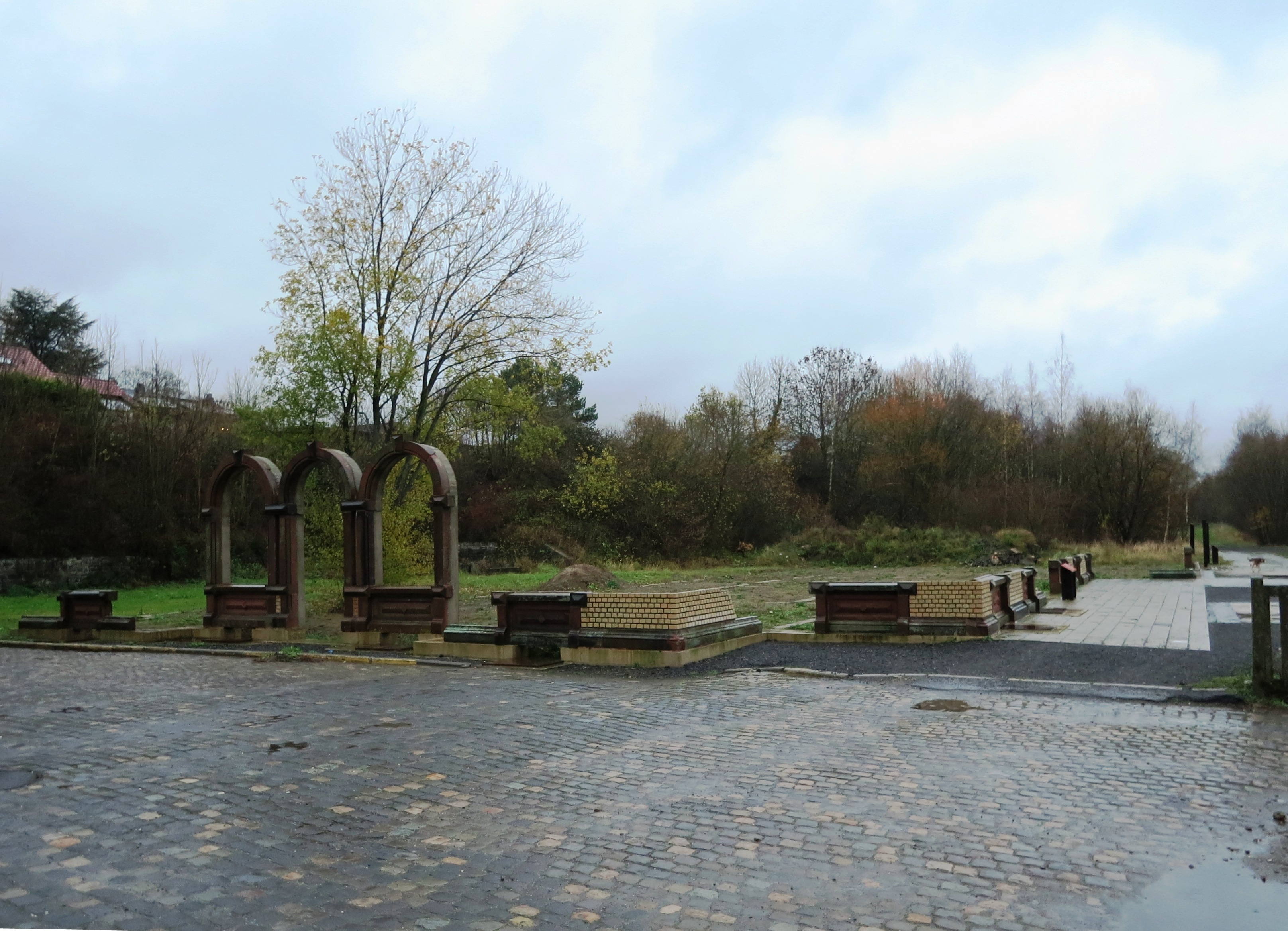 The footprint of the western part of the old station passenger and frontier administration building is marked on the ground. The position of further (eastern) end of the building is buried in undergrowth. A programme is underway to "improve" the site of the former station. Progress is slow, but already (2015) approximately ten information boards are positioned at various points on the site.